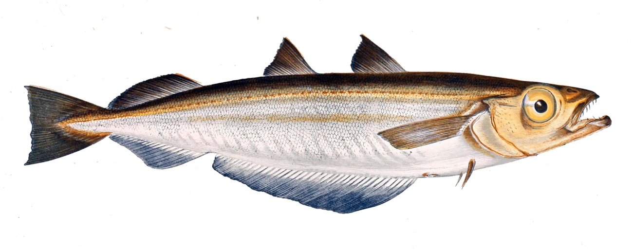 This species (since the year 1990-2000) is subject to intense fishing (fishmeal) around Iceland. This fish is sold as fishmeal to fish farmers (especially Norwegians)